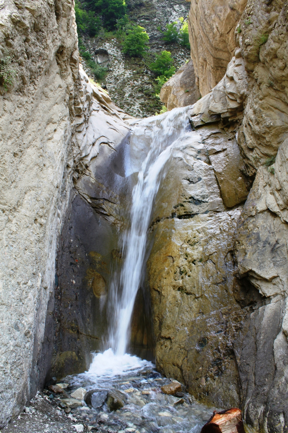 Ismailli discript, Azerbaijan.